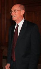 President George W. Bush (left) meets with the leadership of The Church of Jesus Christ of Latter-day Saints during his visit to Salt Lake City. Bush shakes hands with President Thomas S. Monson, who is joined by Henry B. Eyring, First Counselor.